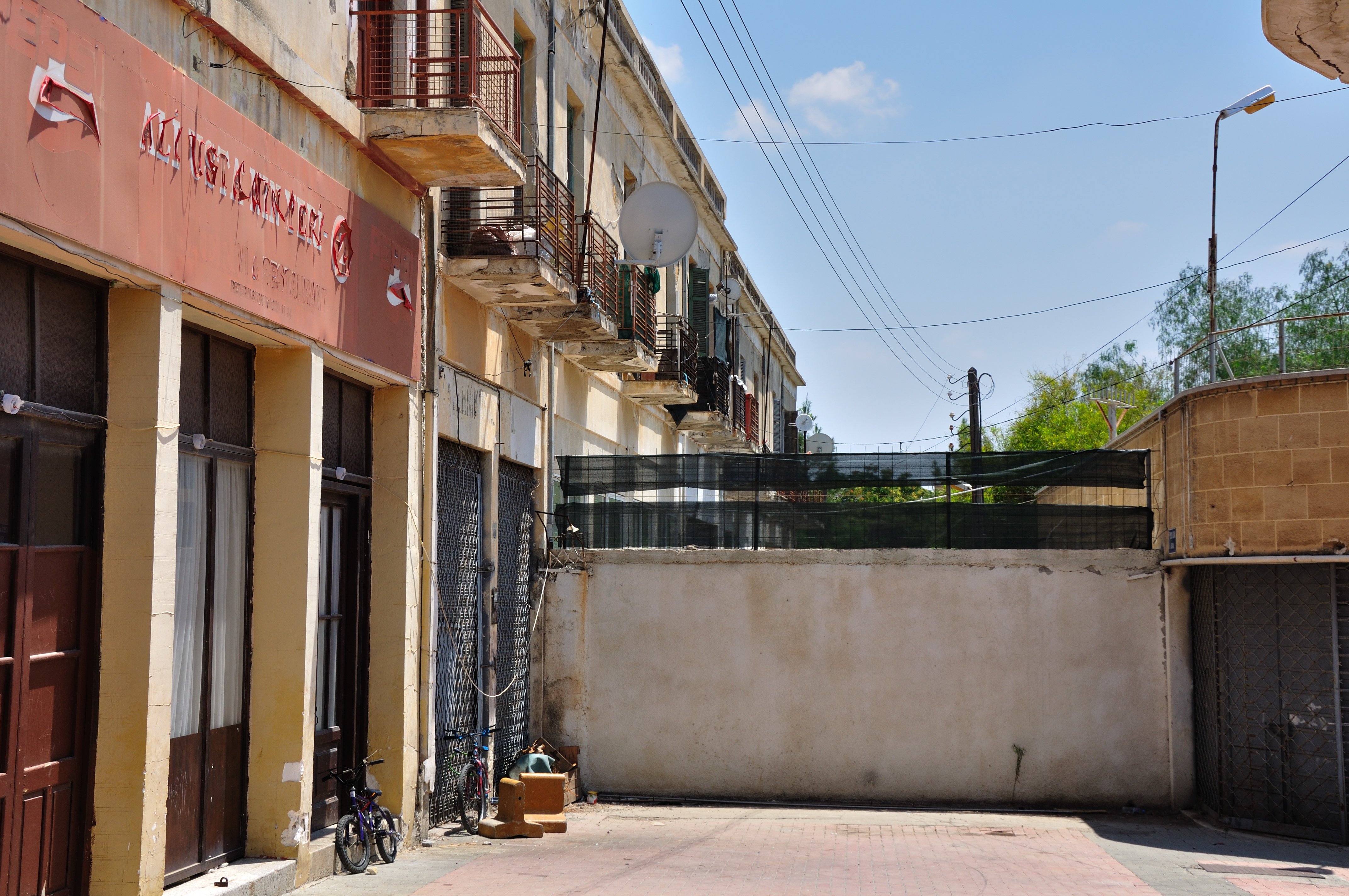 Cyprus, the border across Nicosia